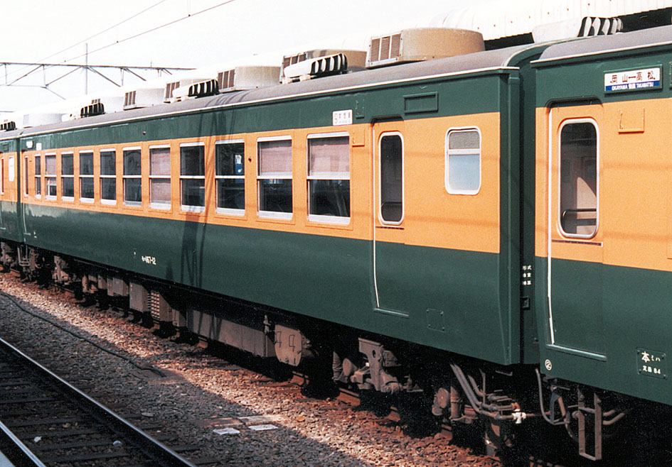 JNR Moha 167-12 electric car